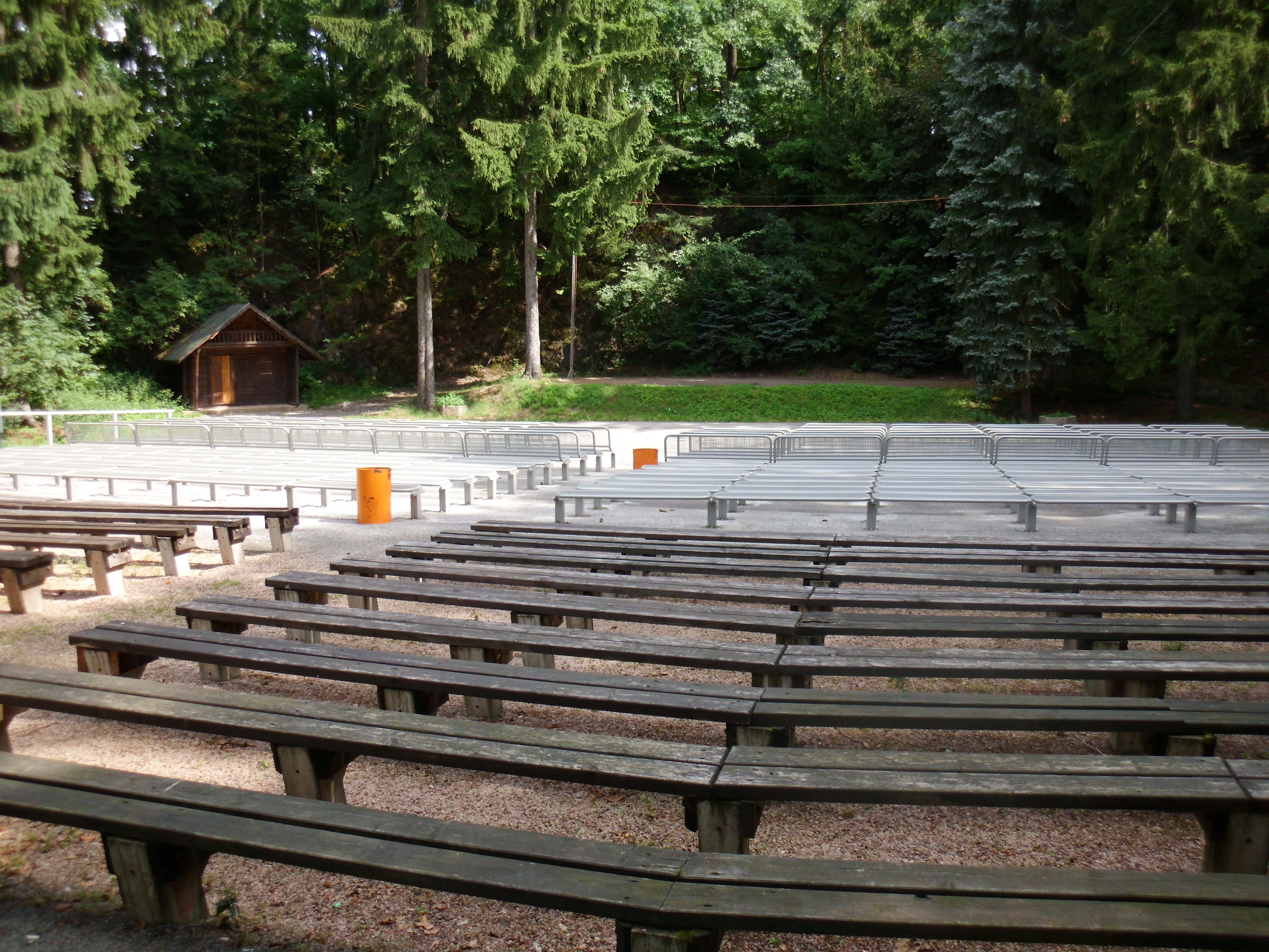 Steinhübel Neuwürschnitz